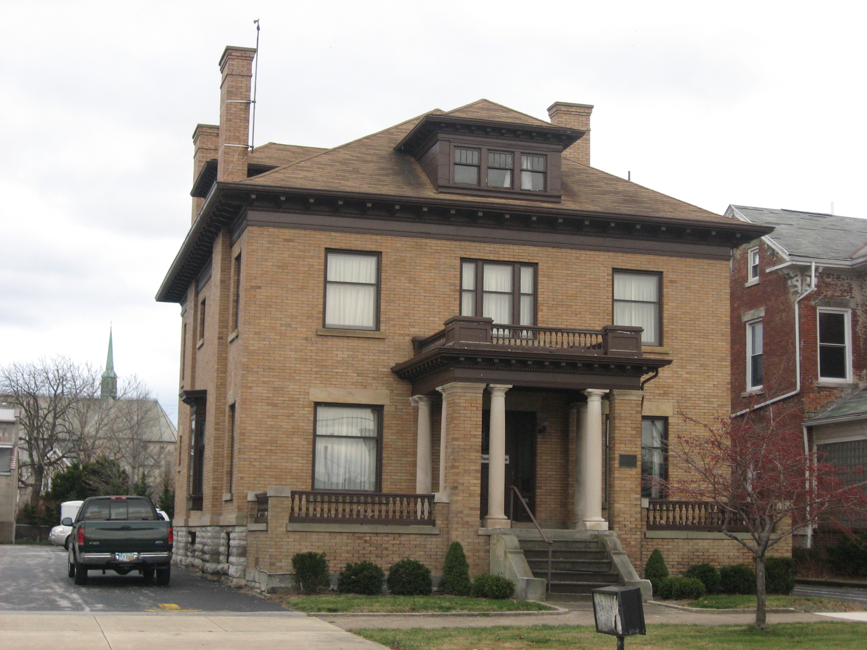 Front and eastern side of the John Mertz House, located at 610 W. Washington Street (U.S. Route 6) in Sandusky, Ohio, United States. Built in 1909, it is listed on the National Register of Historic Places.